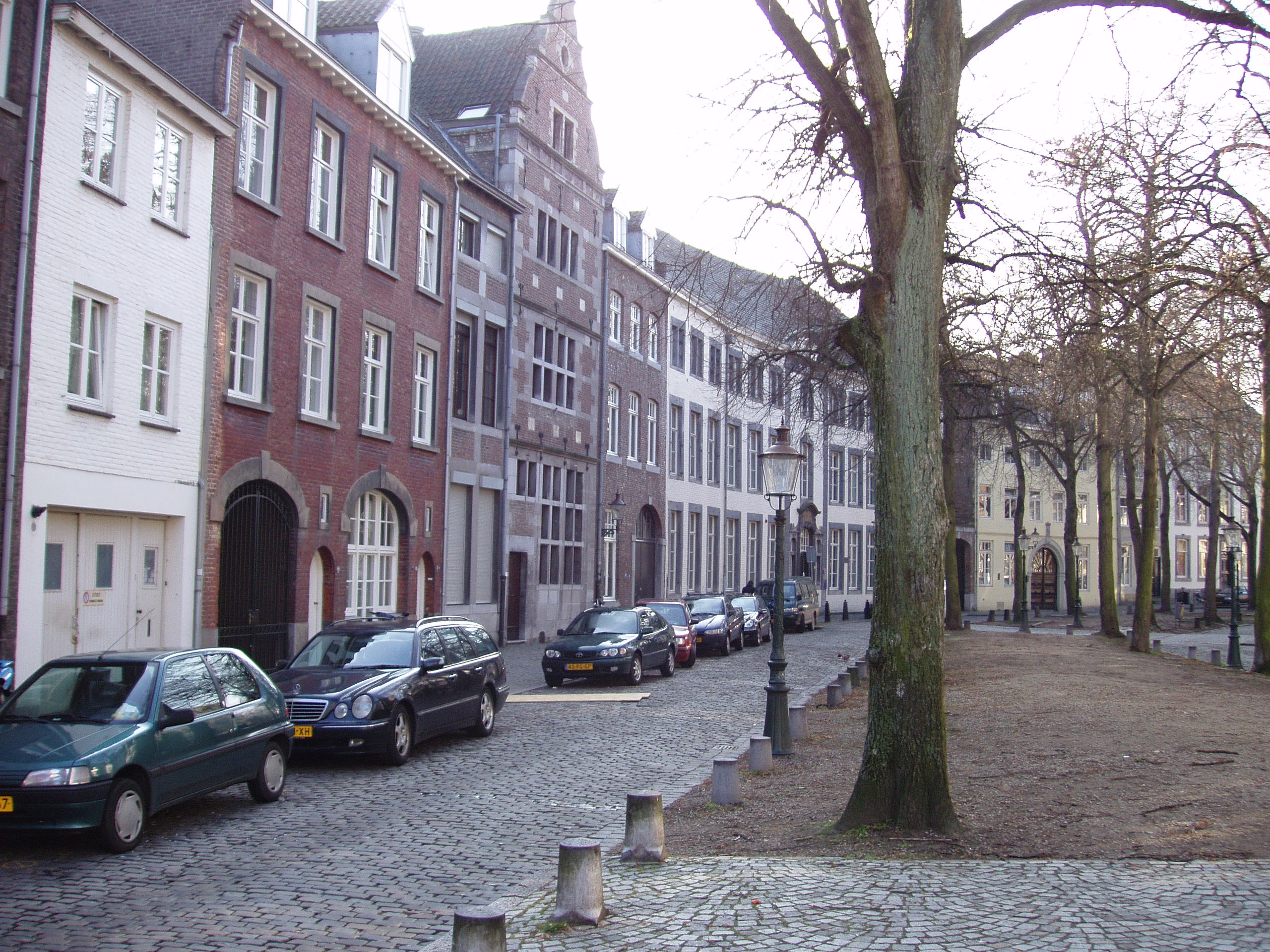 Grote Looiersstraat, in the middle was in the past the rivier Jeker and in it 2 watermills, Maastricht, Limburg, Netherlands